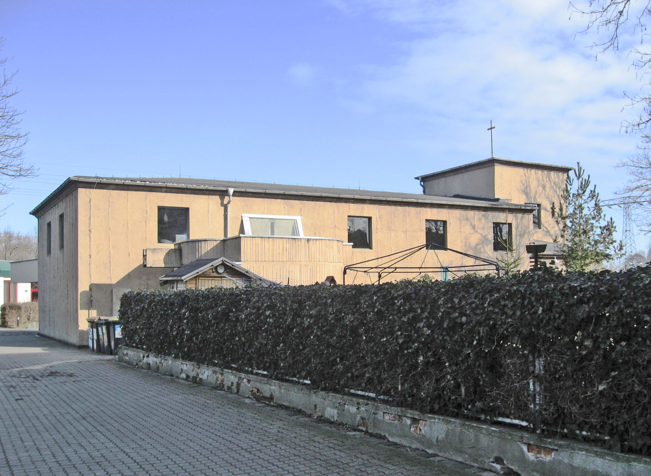 Roman Catholic Church of the Holy Family in Leipzig, Ossietzkystrasse 60